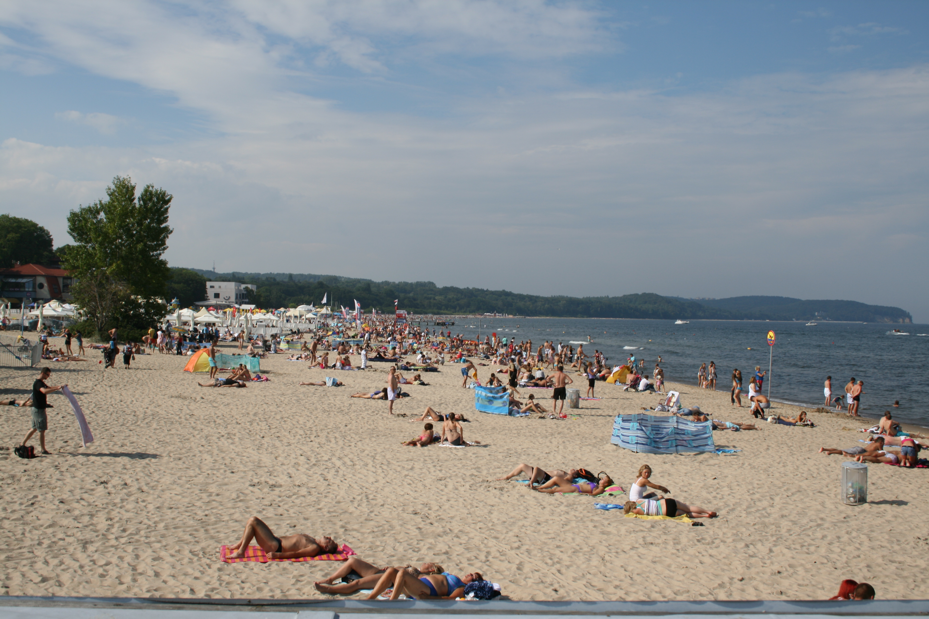 Beach of Sopot in August 2011